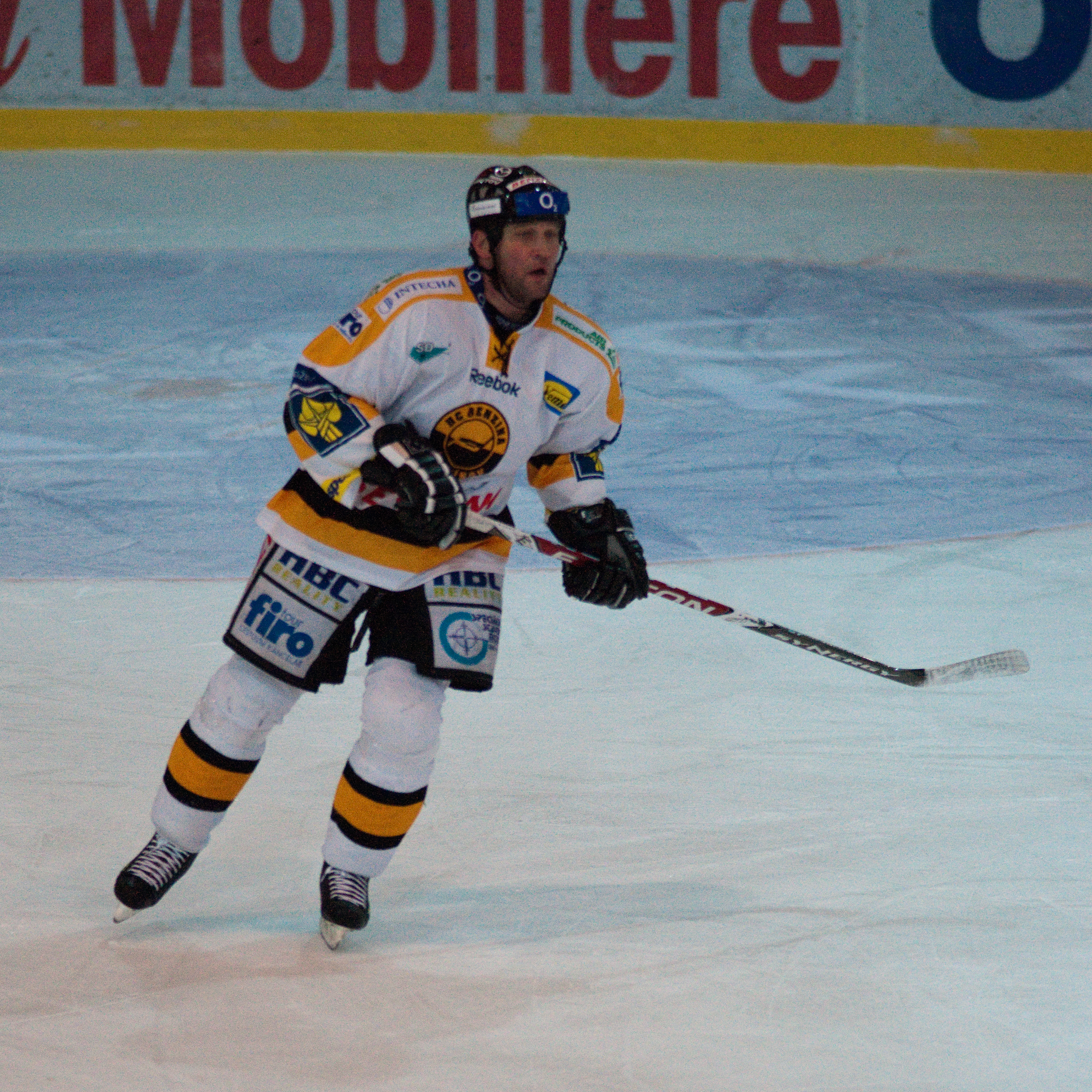 Fribourg-Gotteron vs. HC Litvinov, Exhibition game, 20th February 2010 The making of this document was supported by Wikimedia CH. (Submit your project!) For all the files concerned, please see the category Supported by Wikimedia CH.